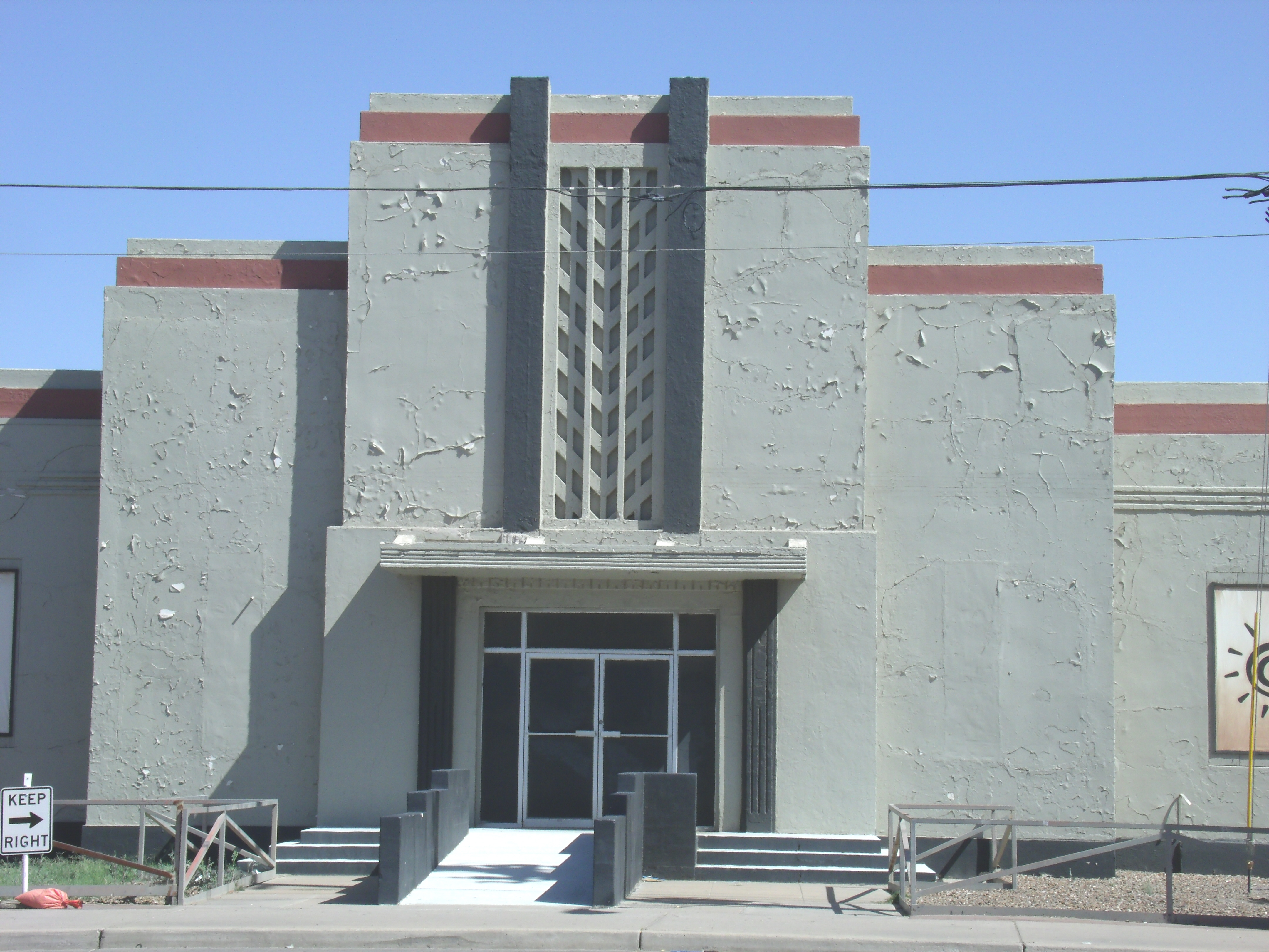 The front entrance of the Arizona State Fair WPA Civic Building which was built during the Great Depression Era in 1938. It is located at 1826 West McDowell Road.